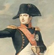 Napoleon in a bicorne hat. detail from Napoléon à la bataille de Wagram Museo Napoleonico, Palazzo Primoli, Rome.